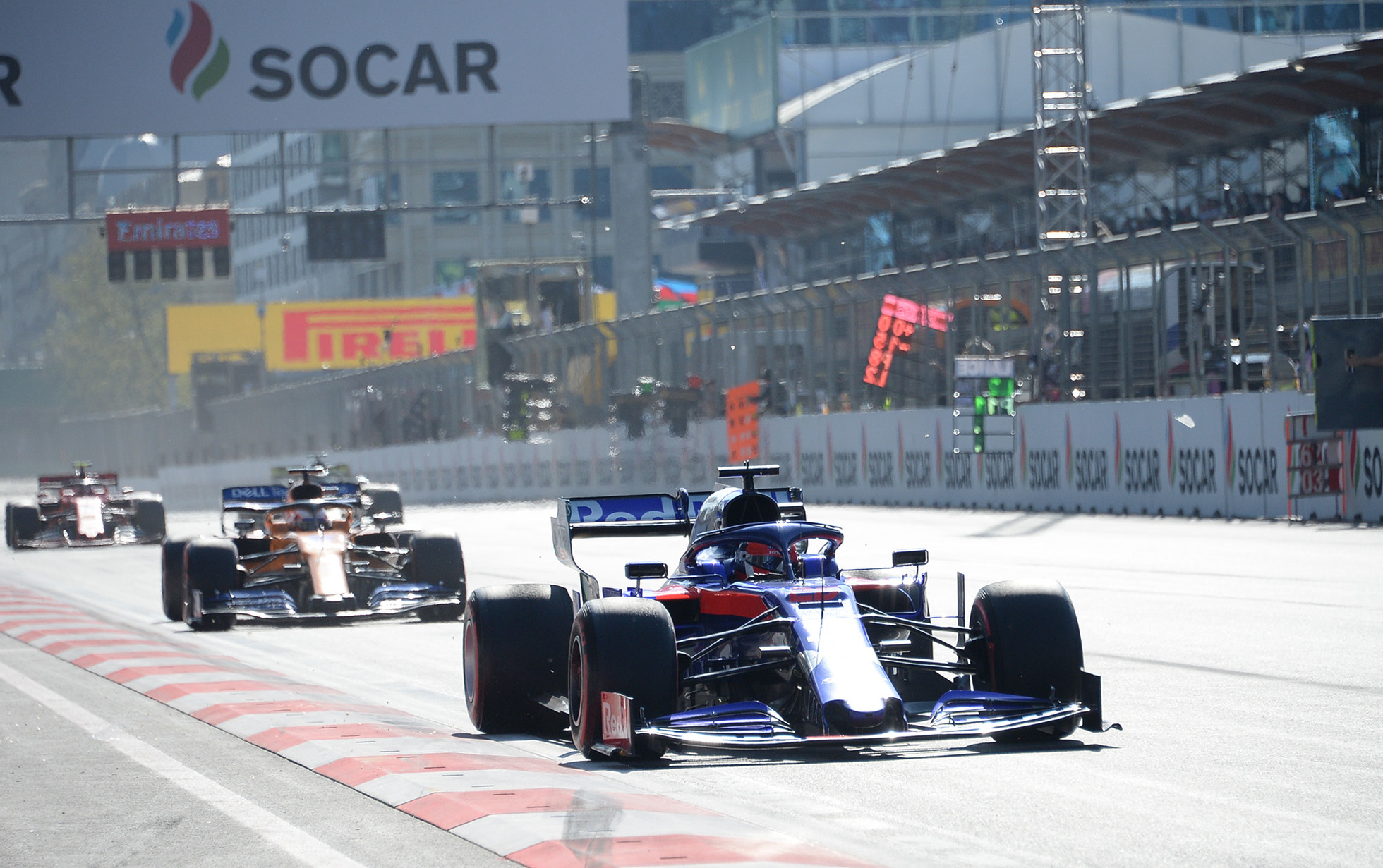 Ilham Aliyev watched the opening ceremony of the 2019 Formula-1 Azerbaijan Grand Prix and final race